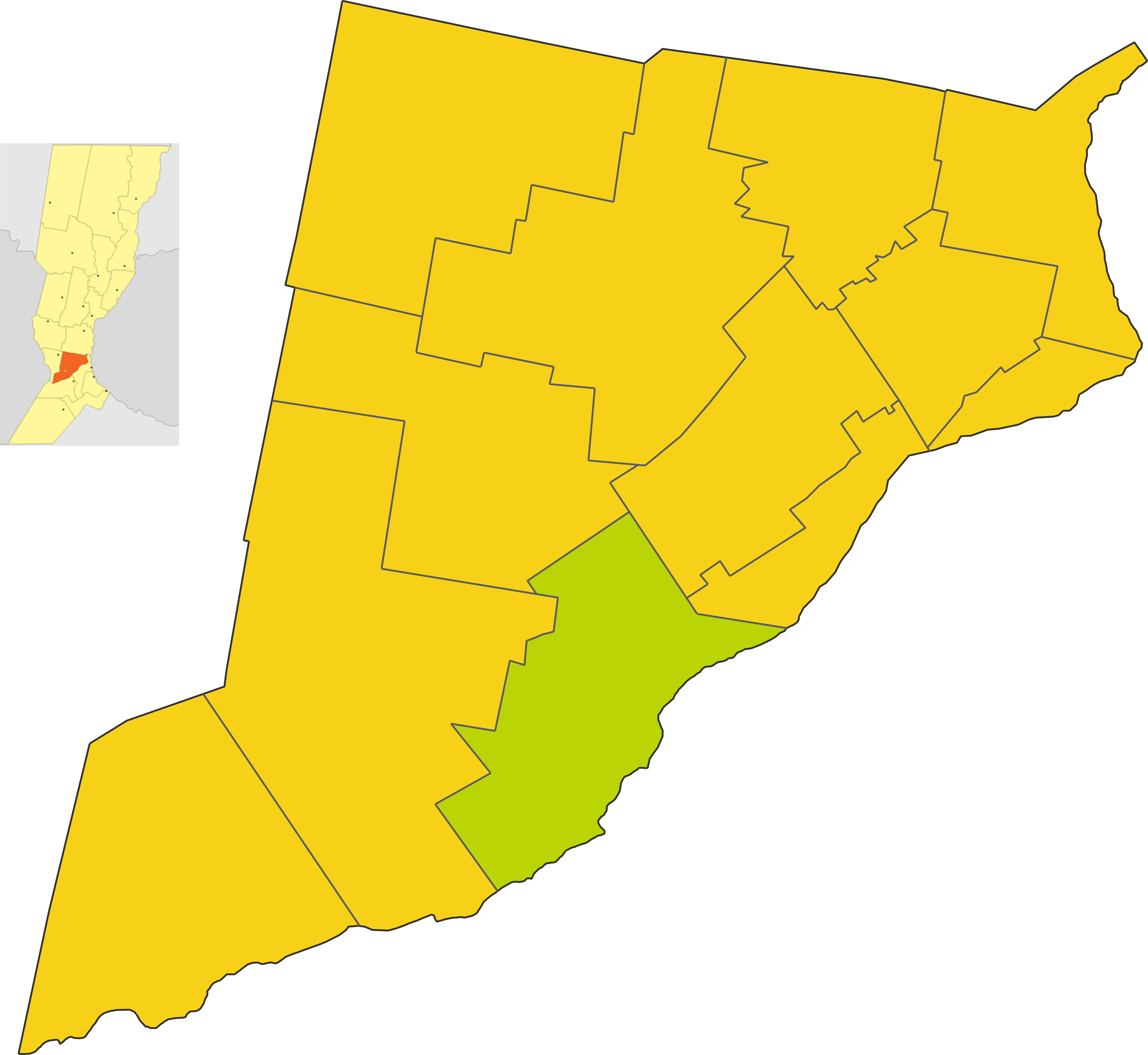 Map of the comuna de Correa in Iriondo department, Santa Fe province, Argentina